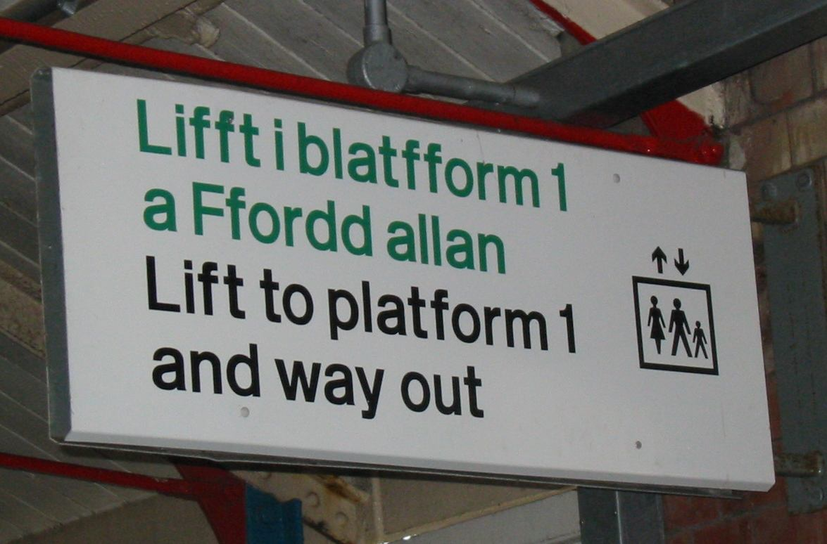 Welsh language